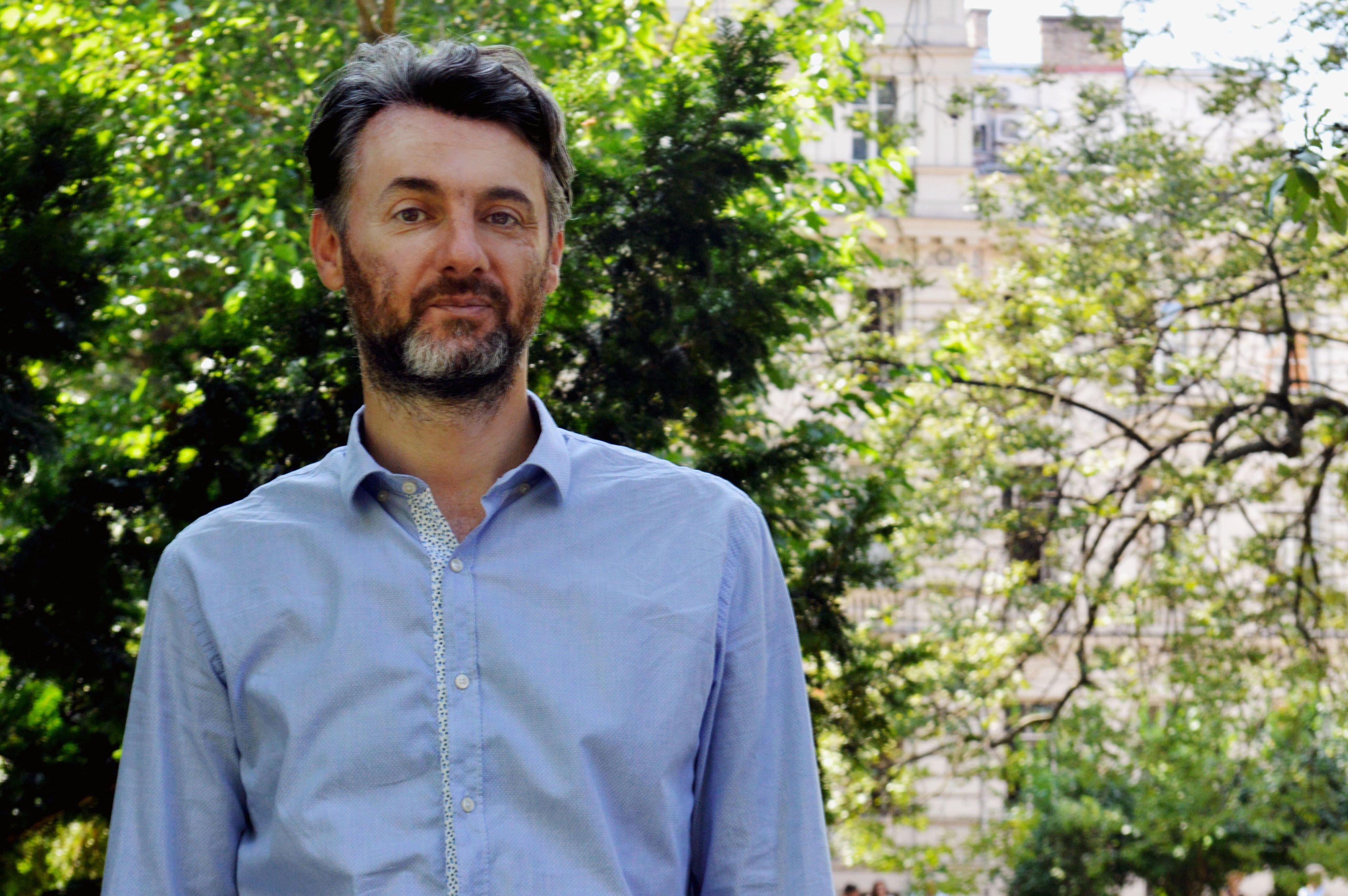 Edin Forto, portrait